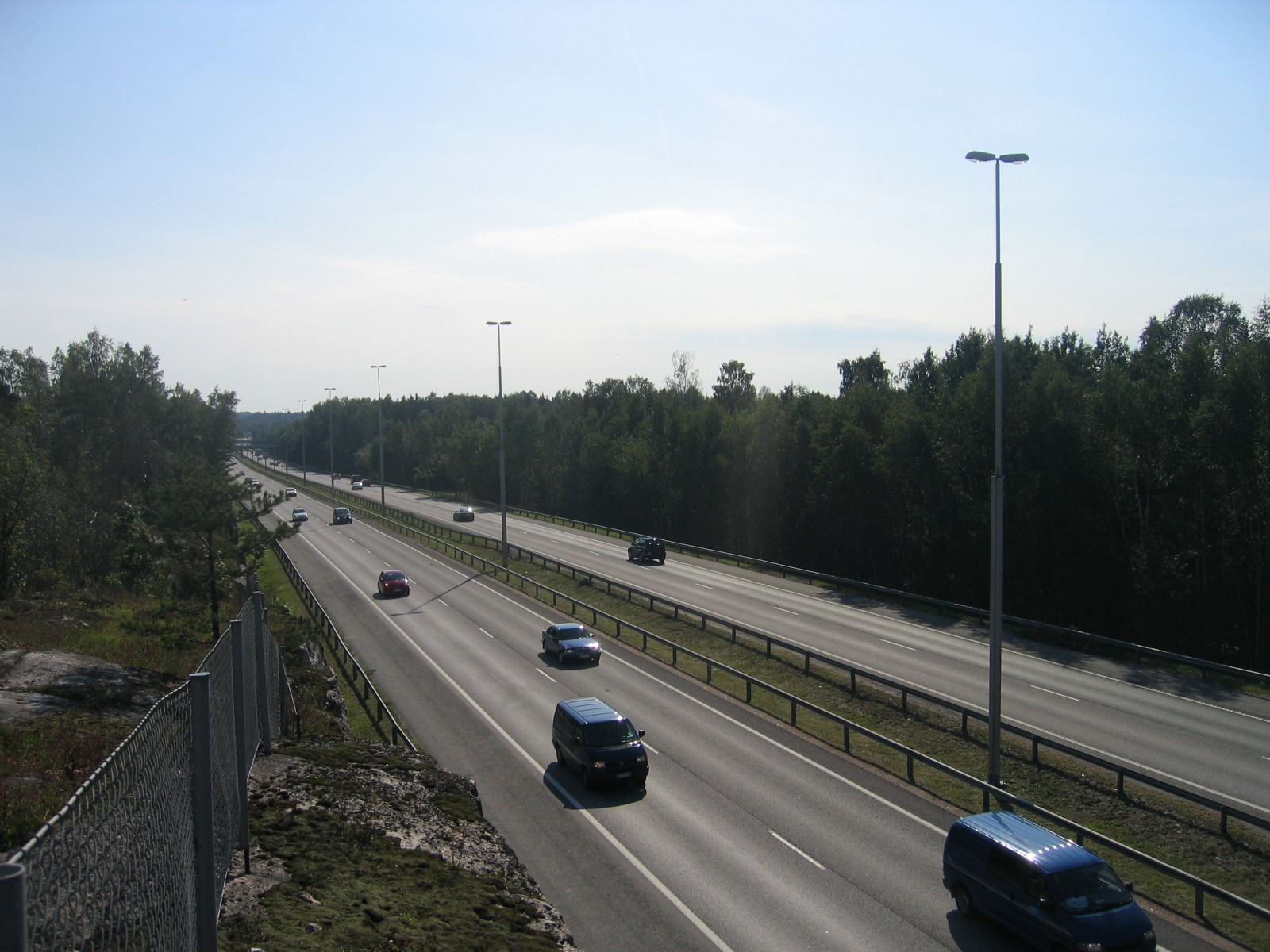 Lahdenväylä motorway (national road 4, E75) at Jakomäki in Helsinki, Finland.